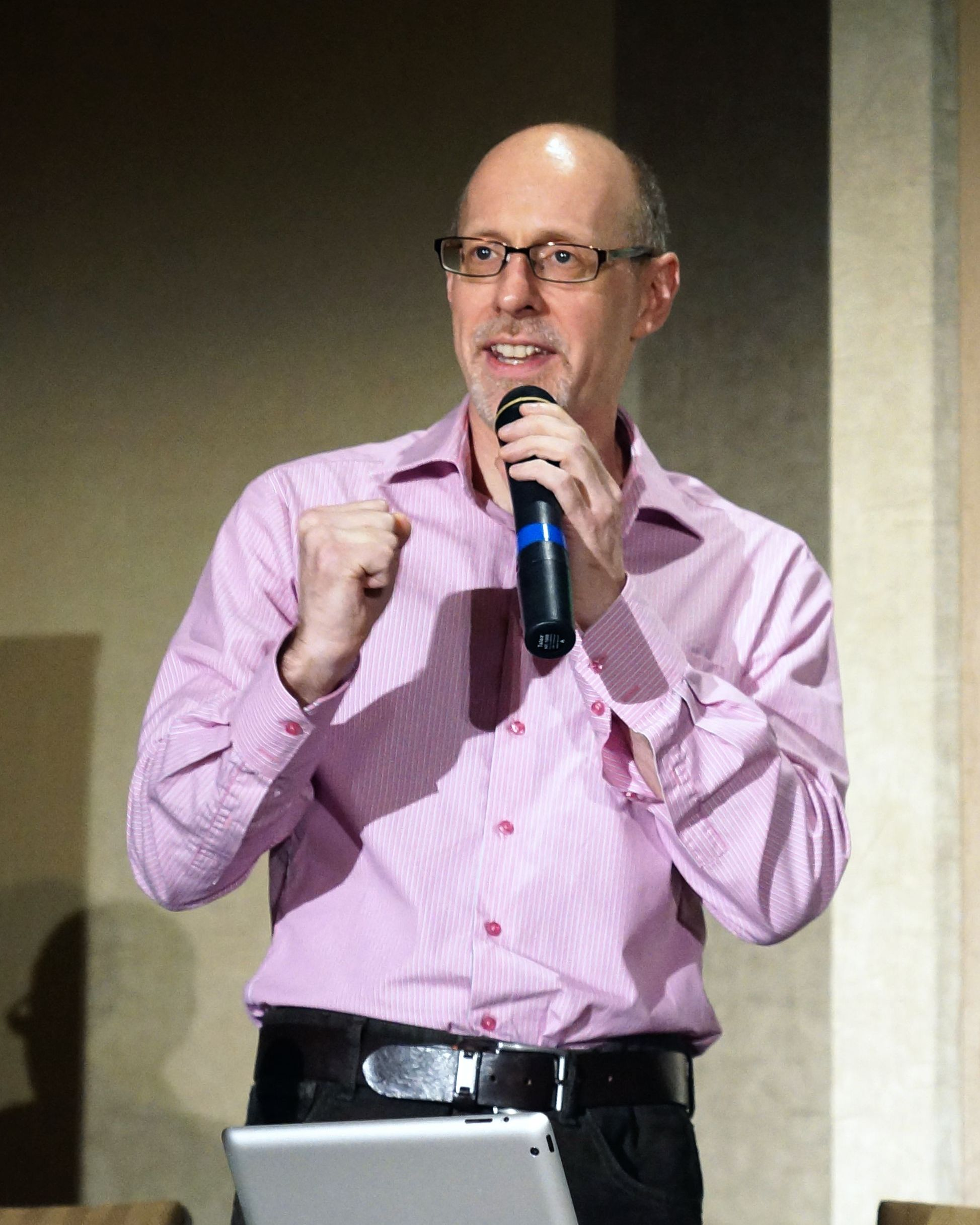 Richard Wiseman performed as Emcee during CSICon 2012 held in Nashville, TN. Here he is shown opening the program on October 25, 2012.